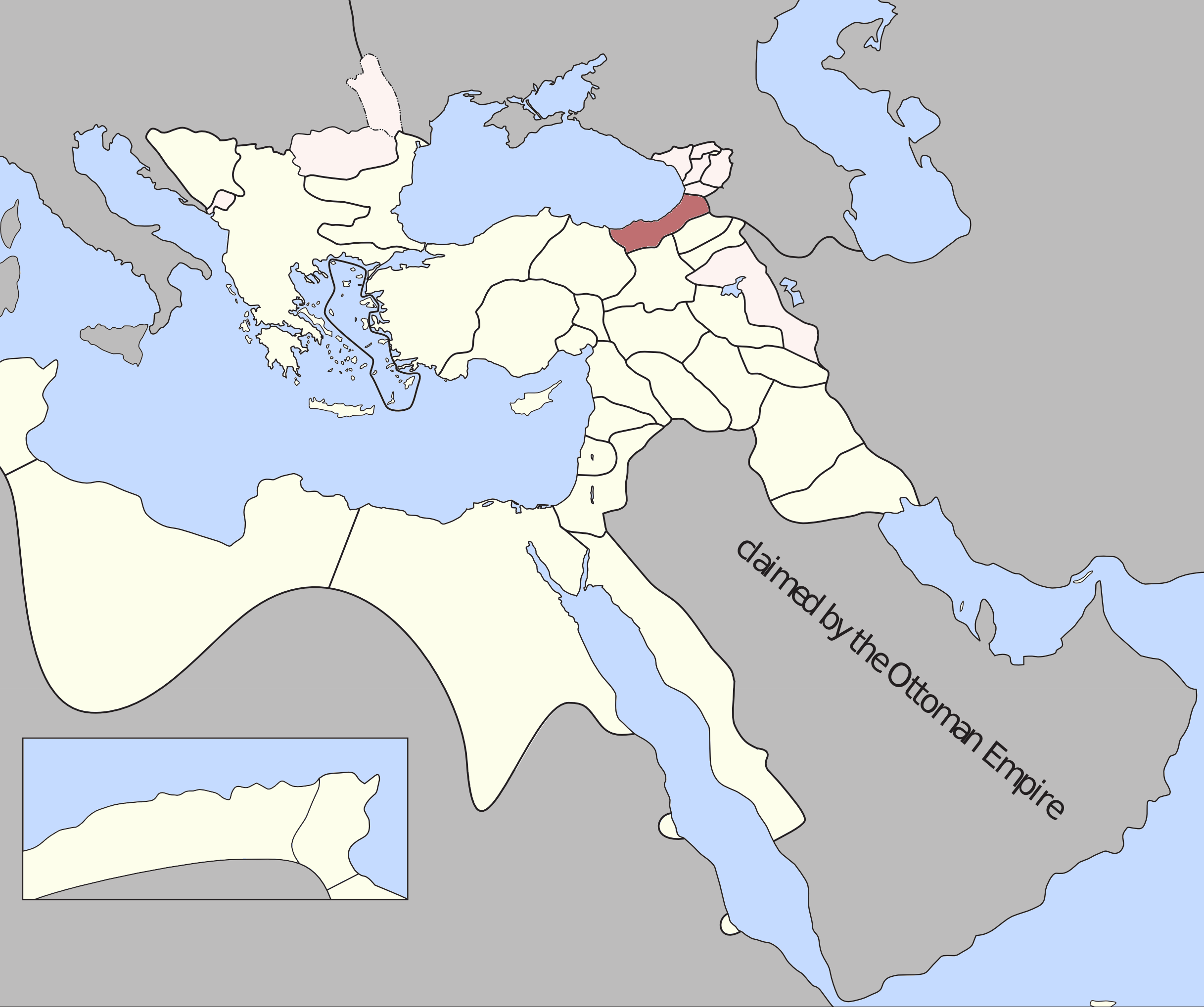 XY Eyalet, Ottoman Empire (1795). Source: A Brief History of the Late Ottoman Empire at Google Books By M. Sukru Hanioglu, Figure 1